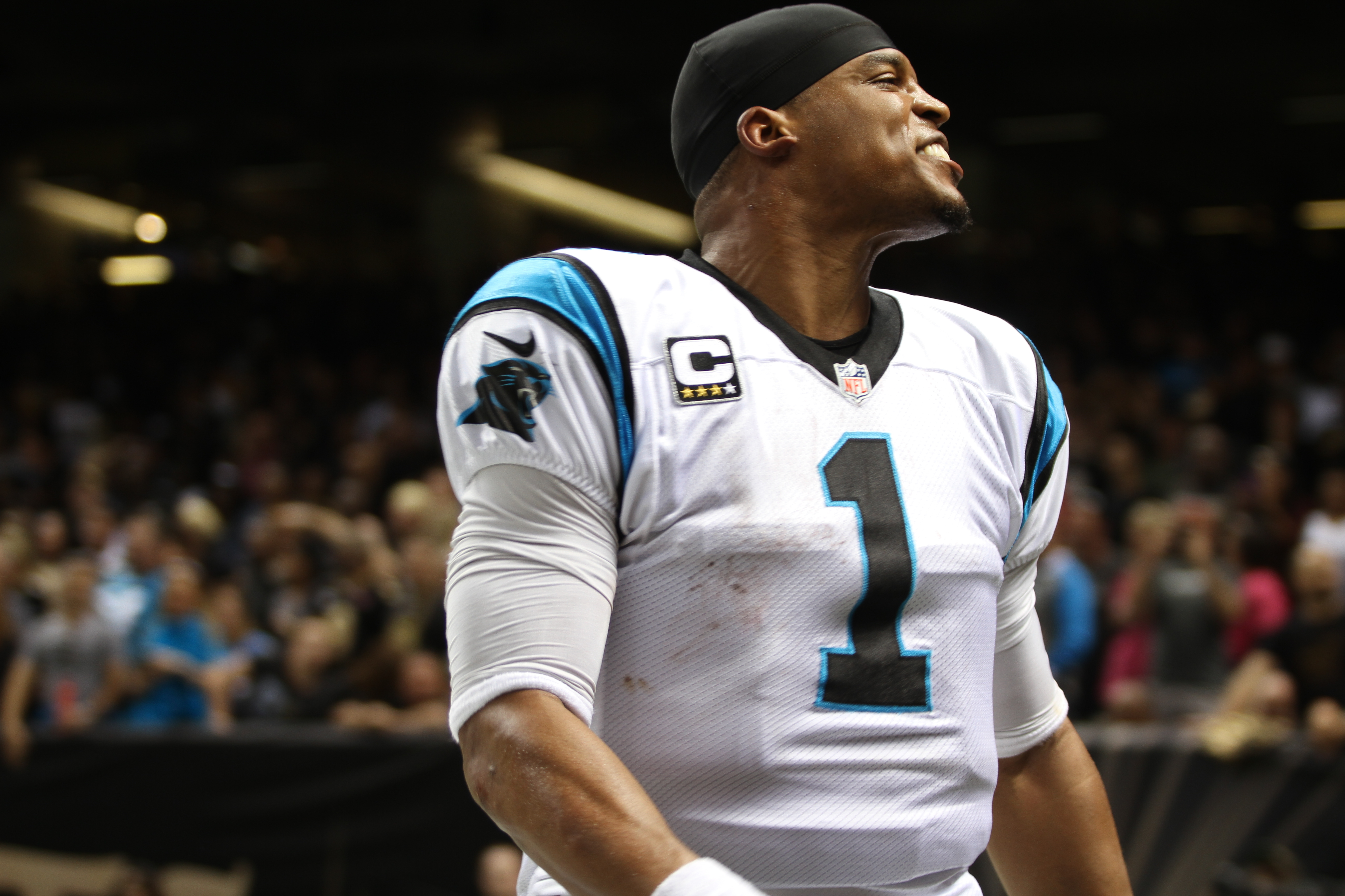 New Orleans Saints vs Carolina Panthers, December 6, 2015, Tammy Anthony Baker, Photographer